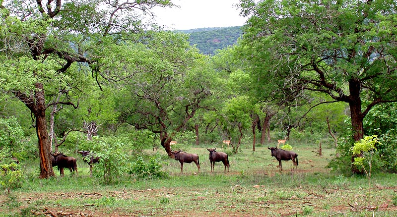 Blue wildebeest and impala in Acacia nigrescens savanna/woodland, Mlawula Nature Reserve.